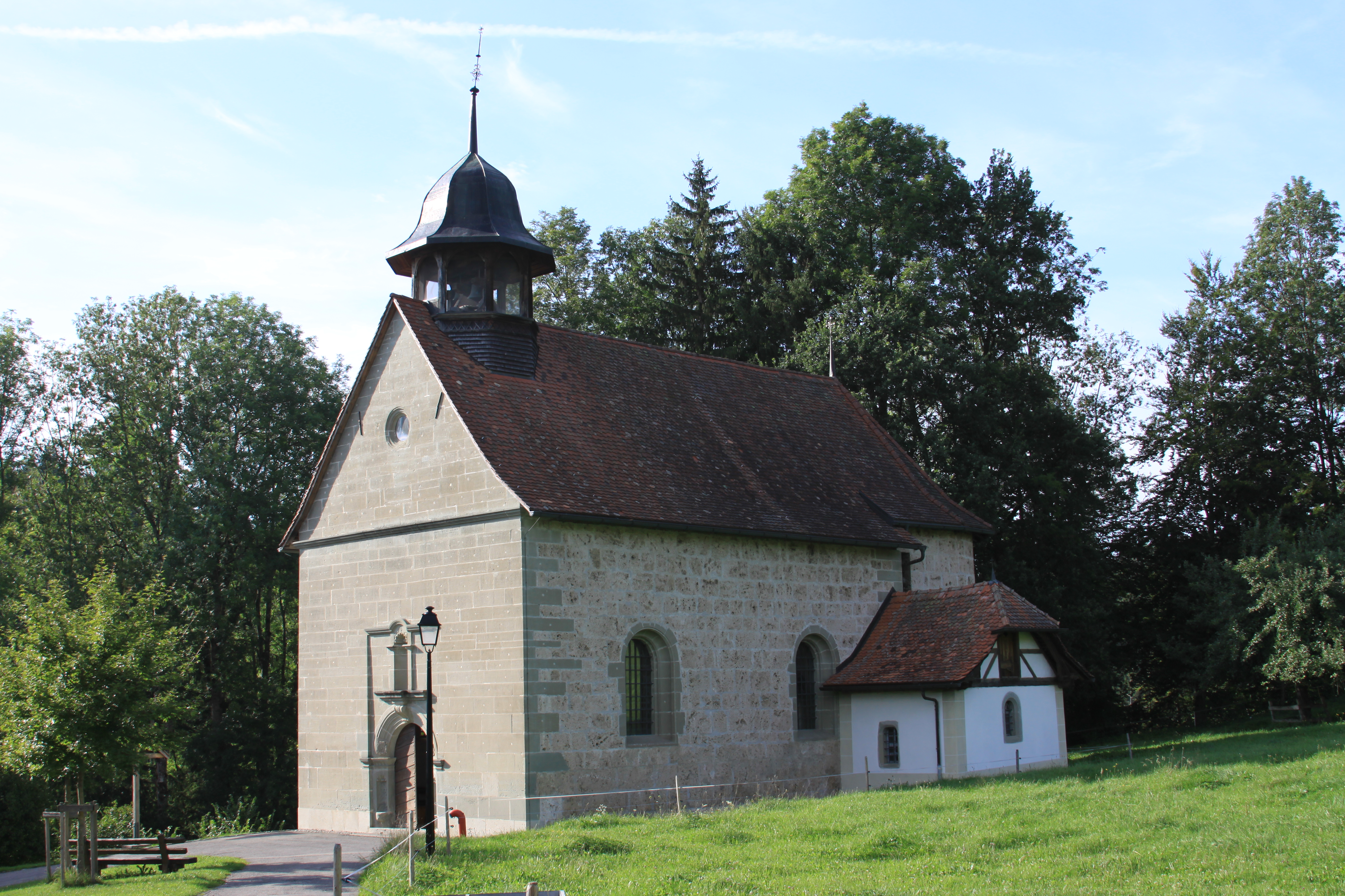 Notre-Dame Chapel, Chemin de la Glâne 10a, Posat, Switzerland